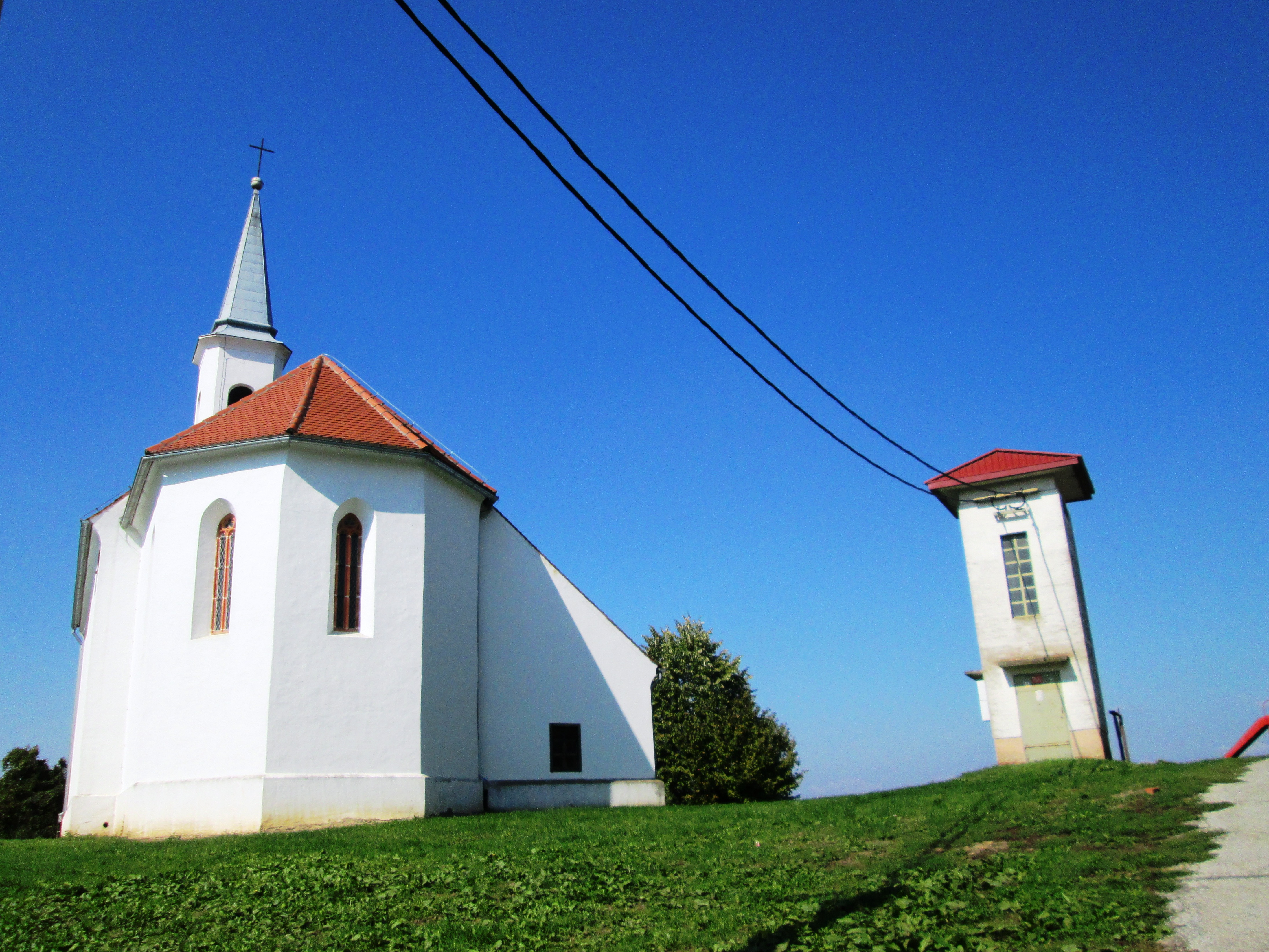 St. Thomas Church in Tomas, Bjelovar, Croatia. This is a a photo of a cultural heritage in Croatia with ID:Z-2113